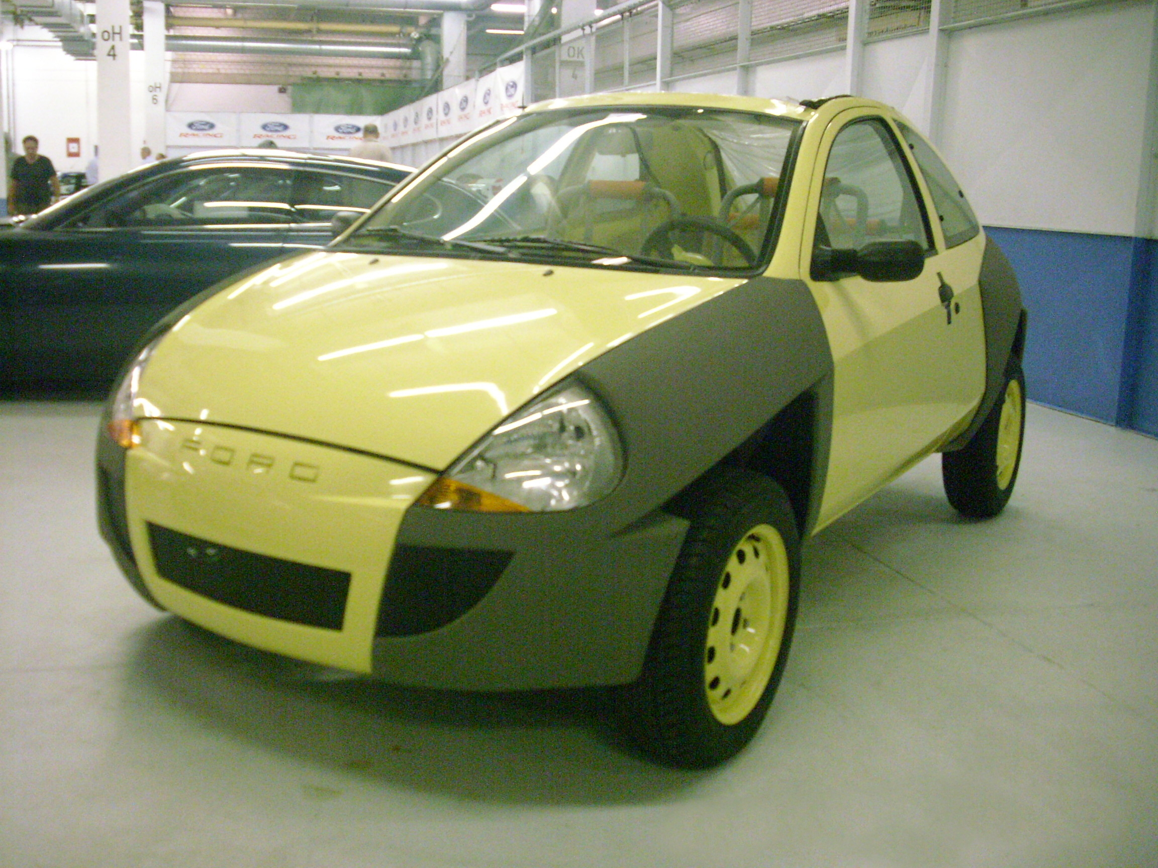 Ford Motion Ka, front view, seen at Ford Family Day at Ford Niehl plant